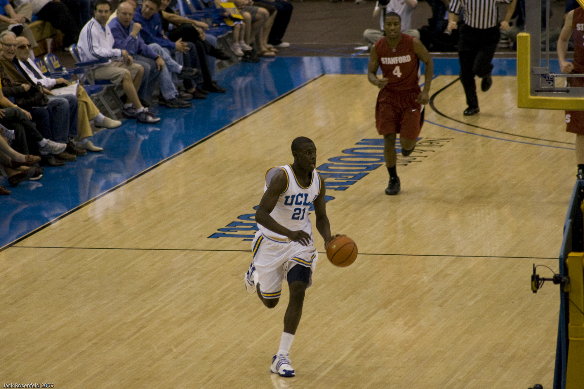 Jrue Holiday of UCLA Bruins